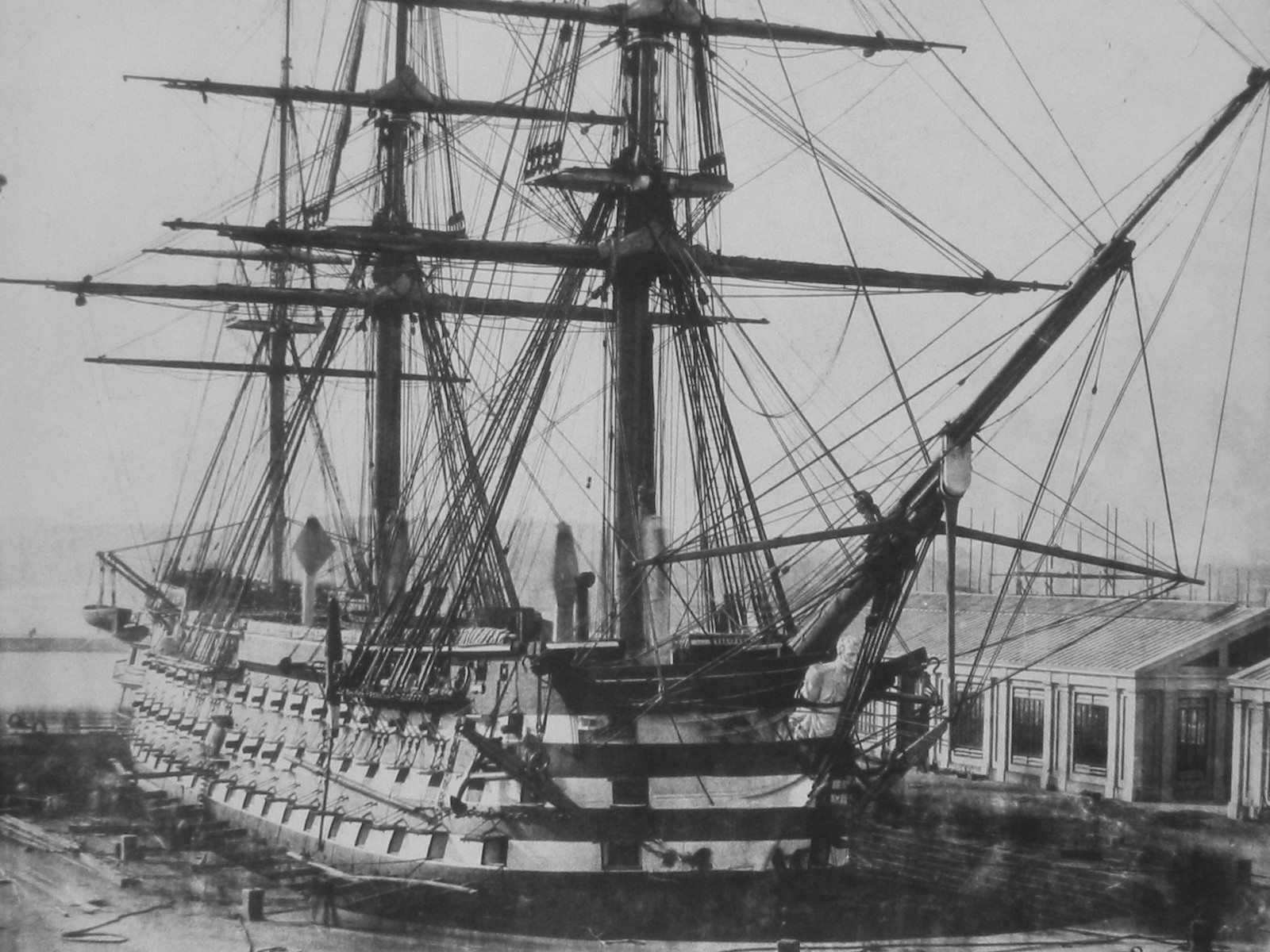 British ship-of-the-line HMS Duke of Wellington in drydock at Keyham, Devonport Dockyard